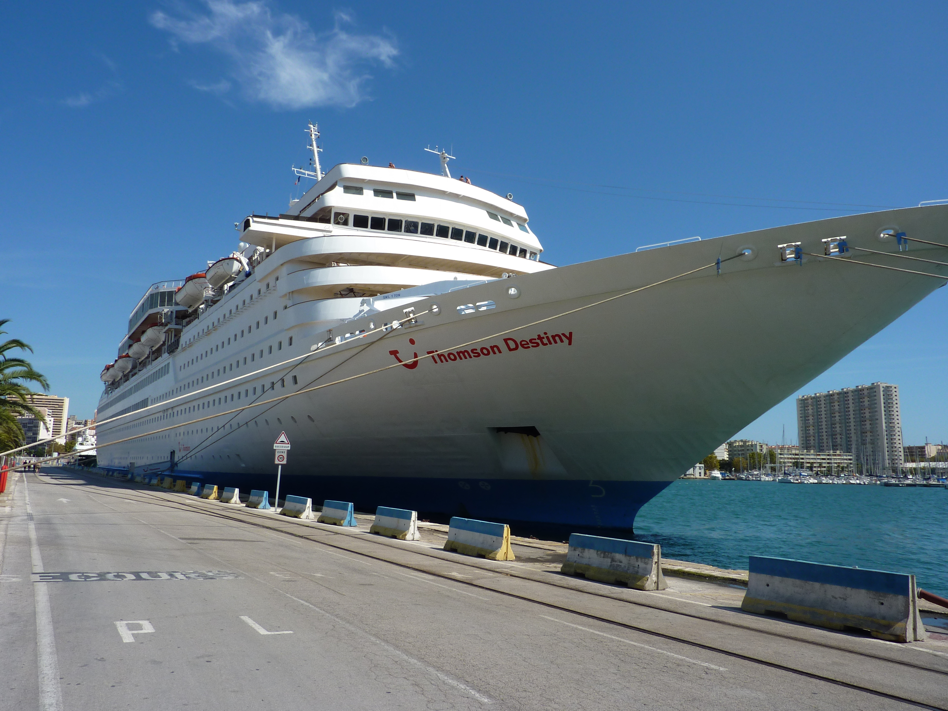 This is a photo of the Thomson Destiny docked up